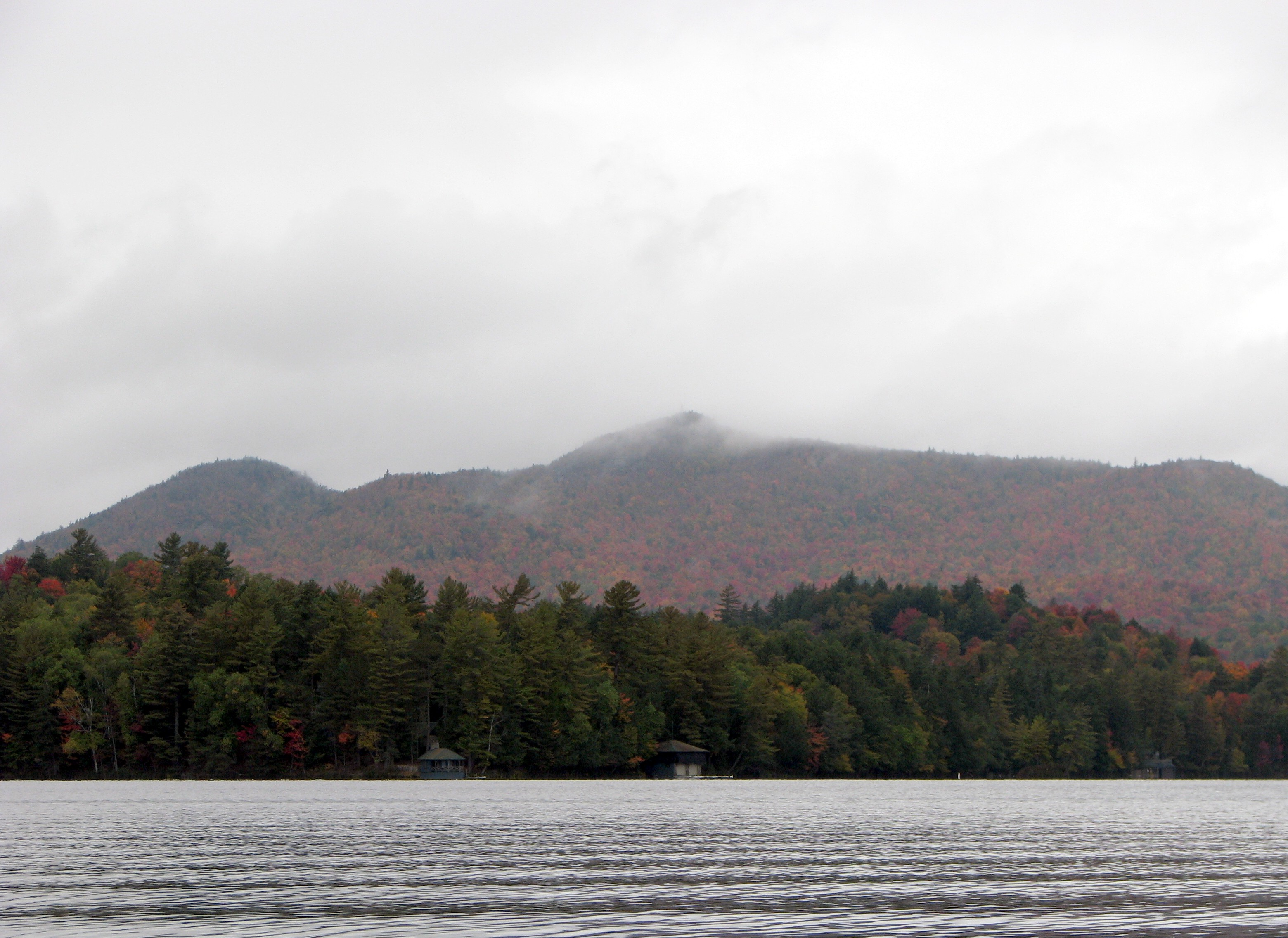 St Regis Mountain, from Upper St. Regis Lake}(not spitfire)